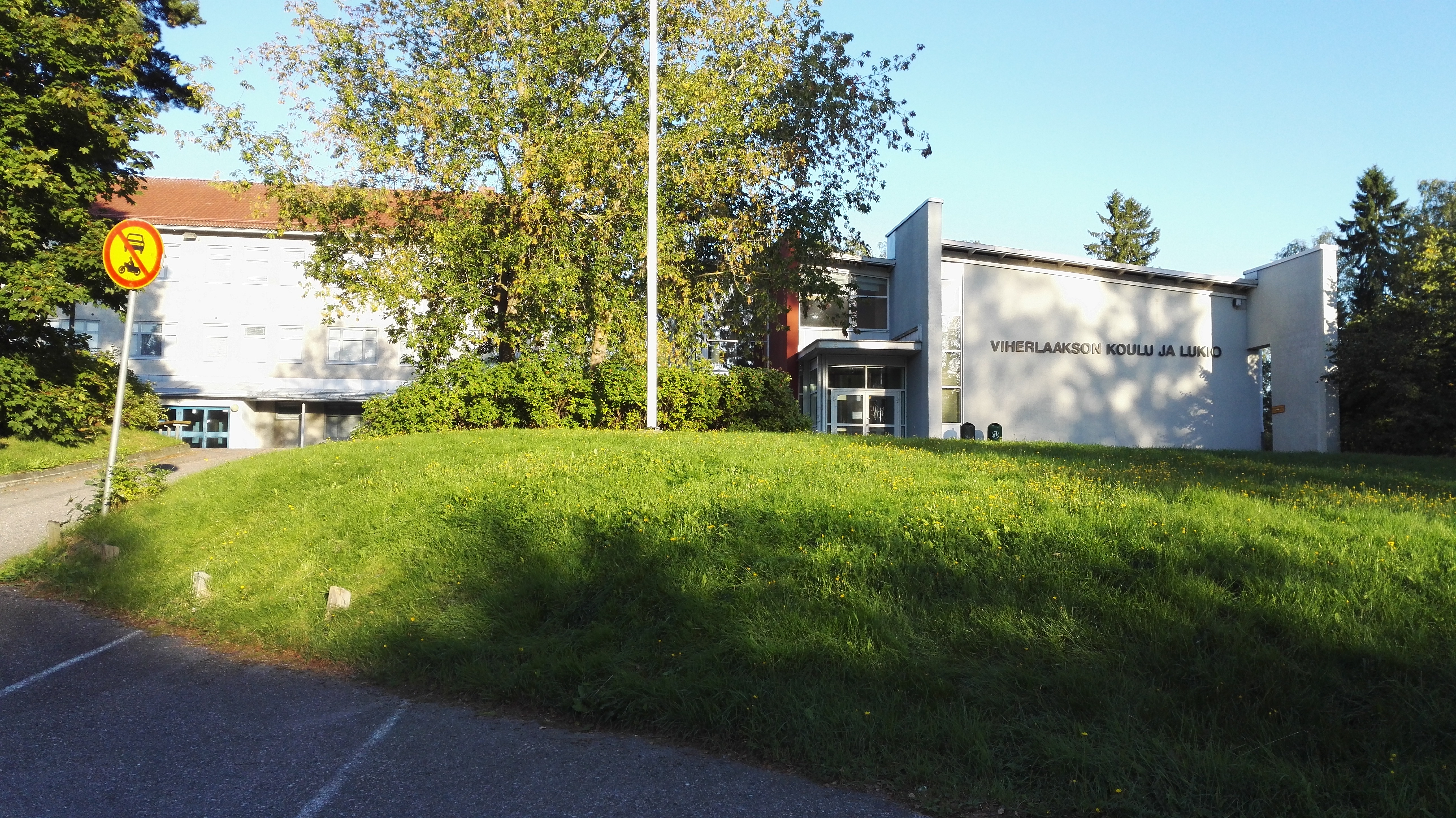 Viherlaakson koulu ja lukio is a school in Espoo.